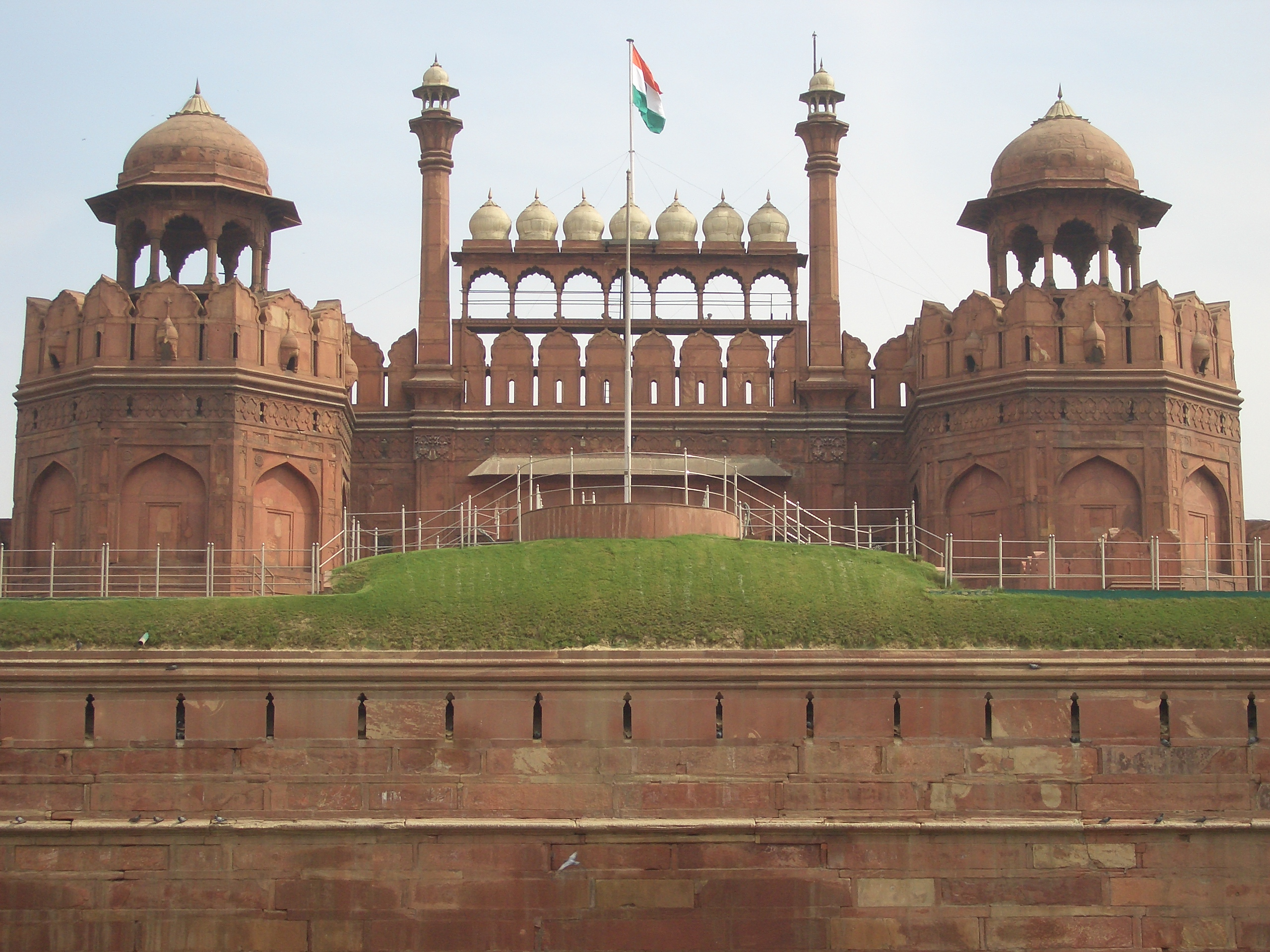 Red Fort